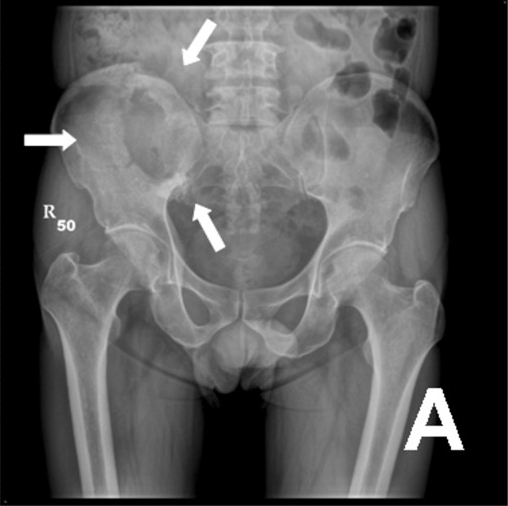 Pelvis radiograph showed a large osteolytic lesion over right iliac bone near sacroiliac junction (white arrows)